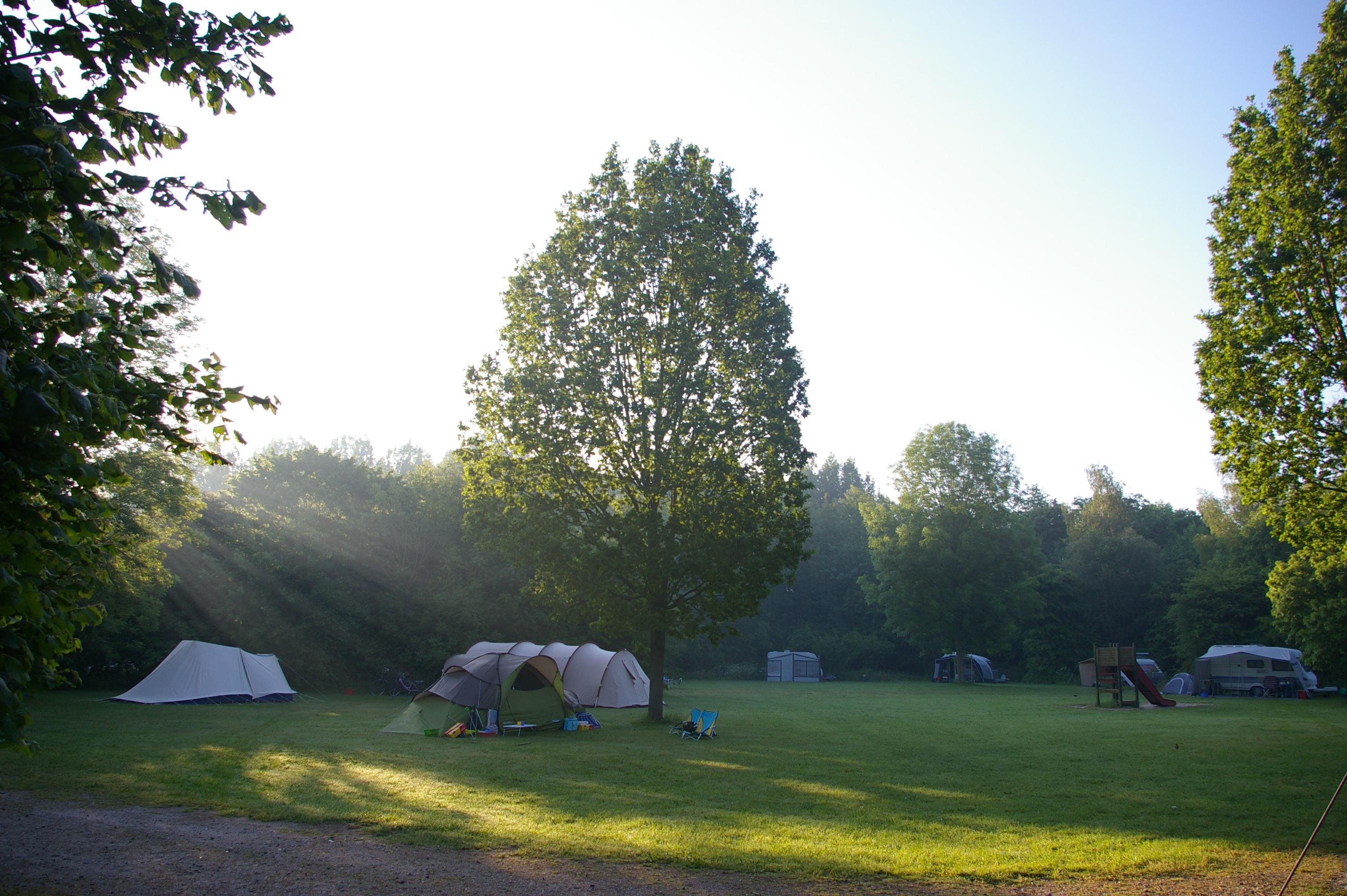 Natuurkampeerterrein (campsite in natural settings) De Dasselaar, near Zeewolde, the Netherlands. Used on Stichting Natuurkampeerterreinen.